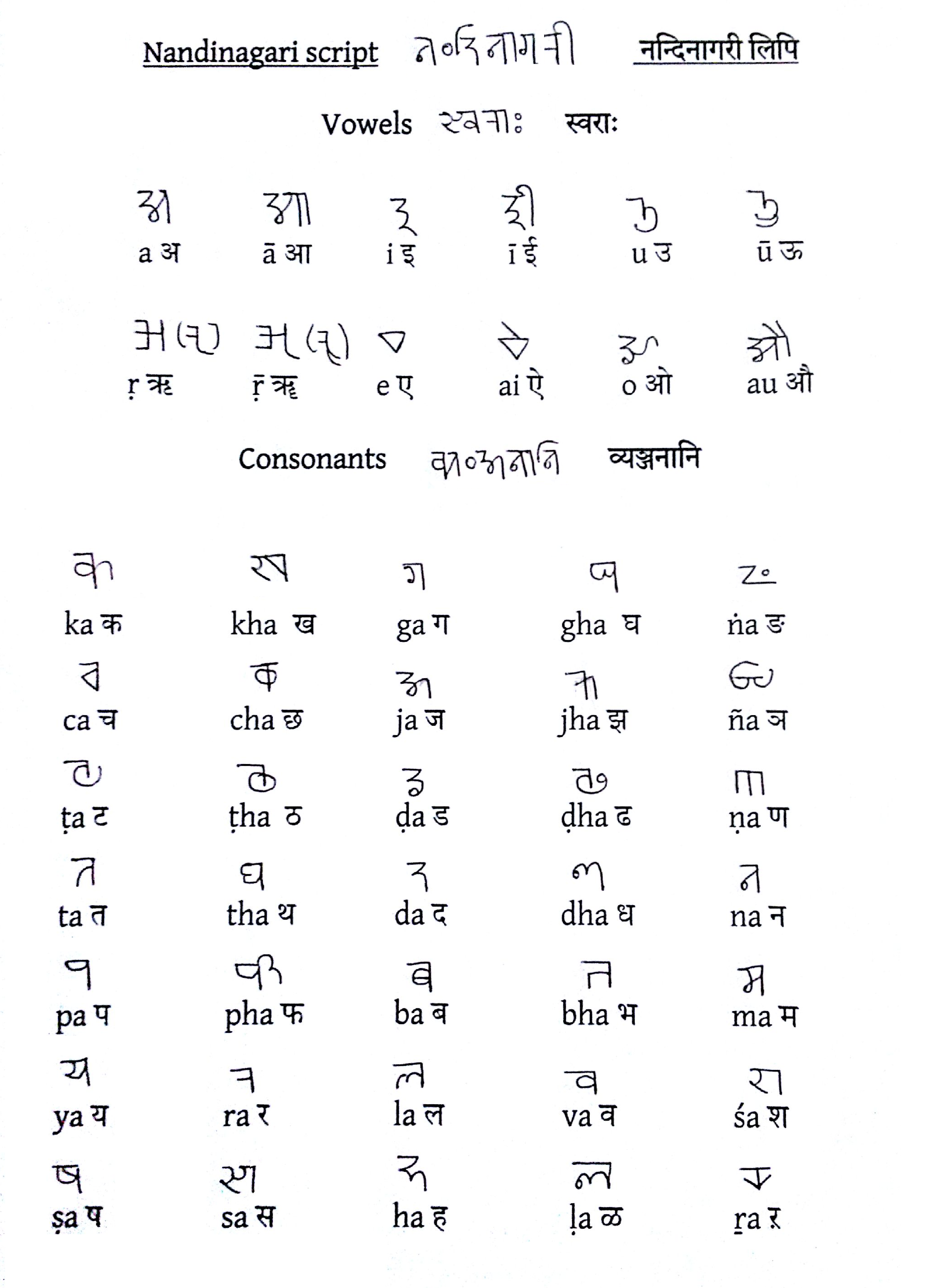 ಇದು ನಂದಿನಾಗರಿ ಲಿಪಿಯ ವರ್ಣಮಾಲೆ. This is chart of Nandinagari script